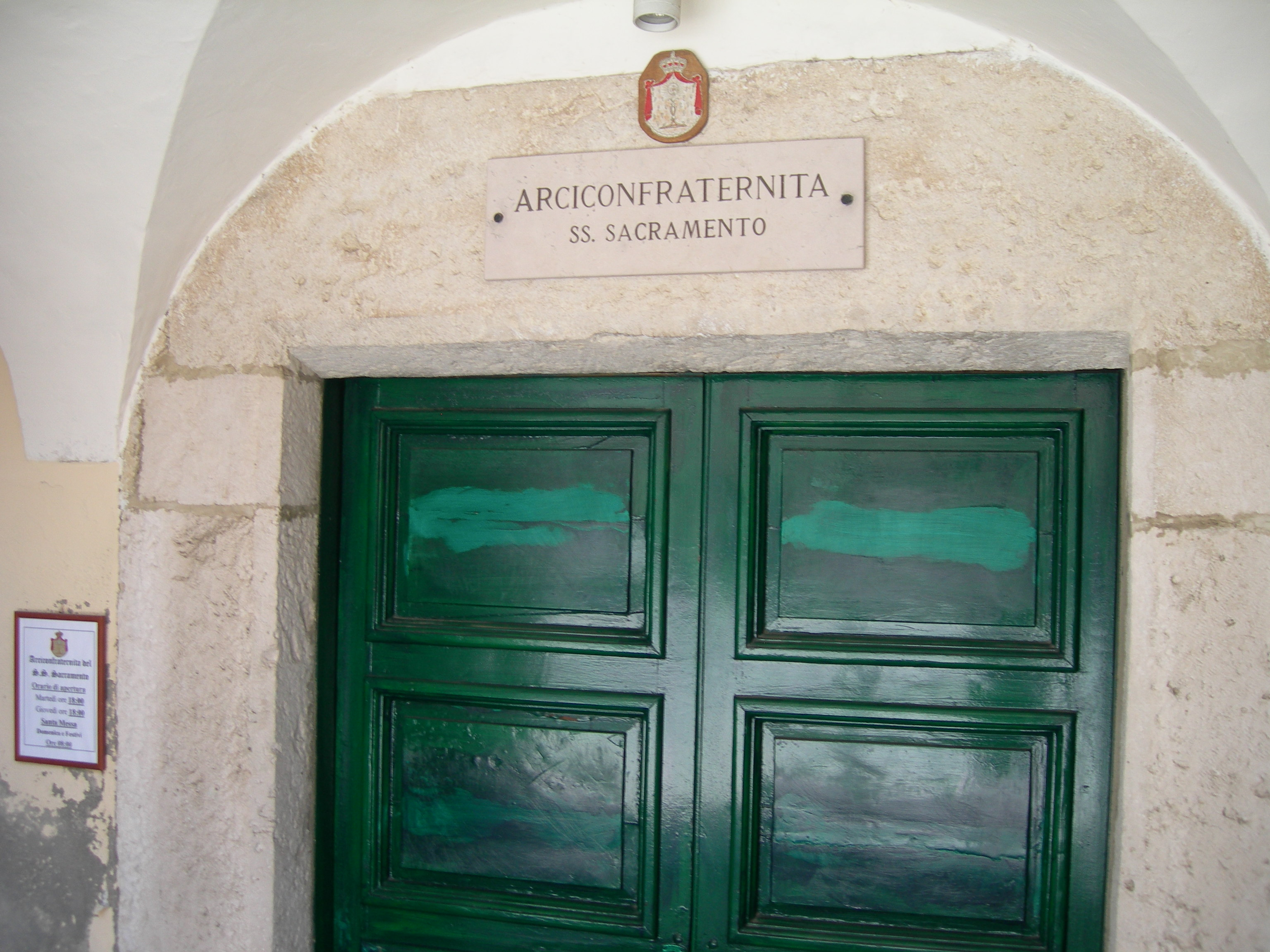 The Succorpo's Church in Foggia